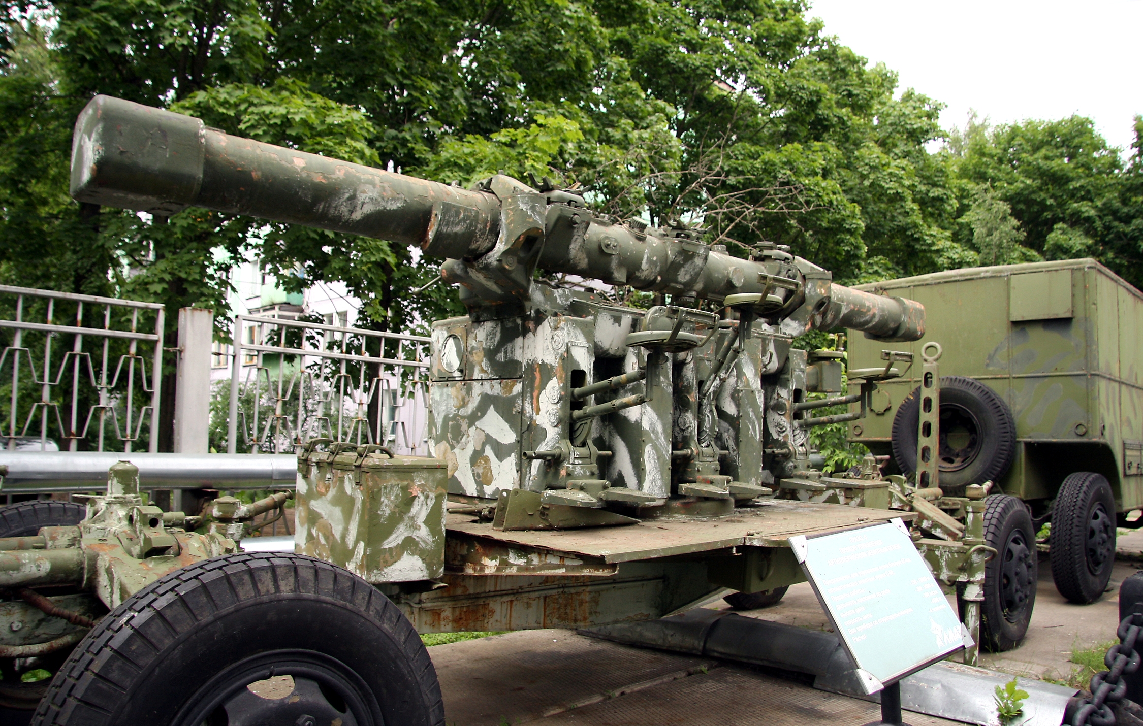 Fire control computer PUAZO-6 in the Air Defense History Museum in Zarya in Moscow Oblast.